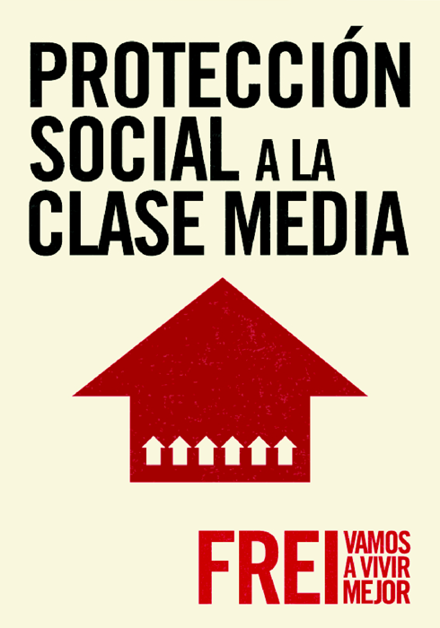 Poster of the campaign of Eduardo Frei for the elections of President of Chile in 2009: Social protection for the middle class. Frei: We are going to live better